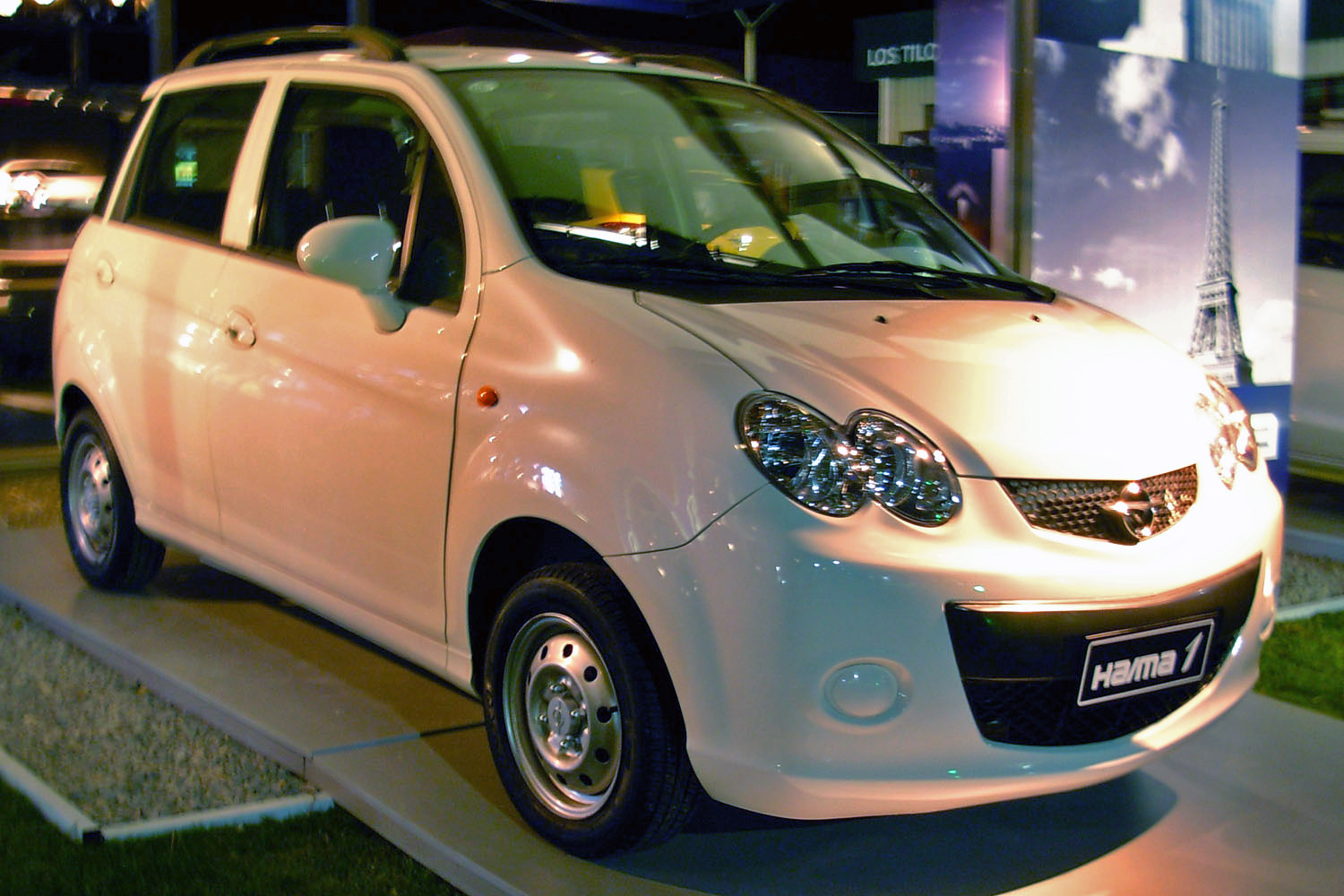 Haima 1 at the 2012 Montevideo Motor Show.